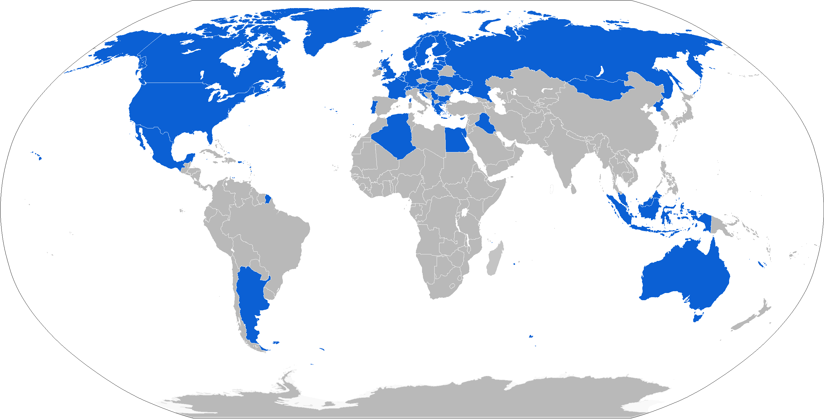 Map of military Mercedes-Benz G-Class operators